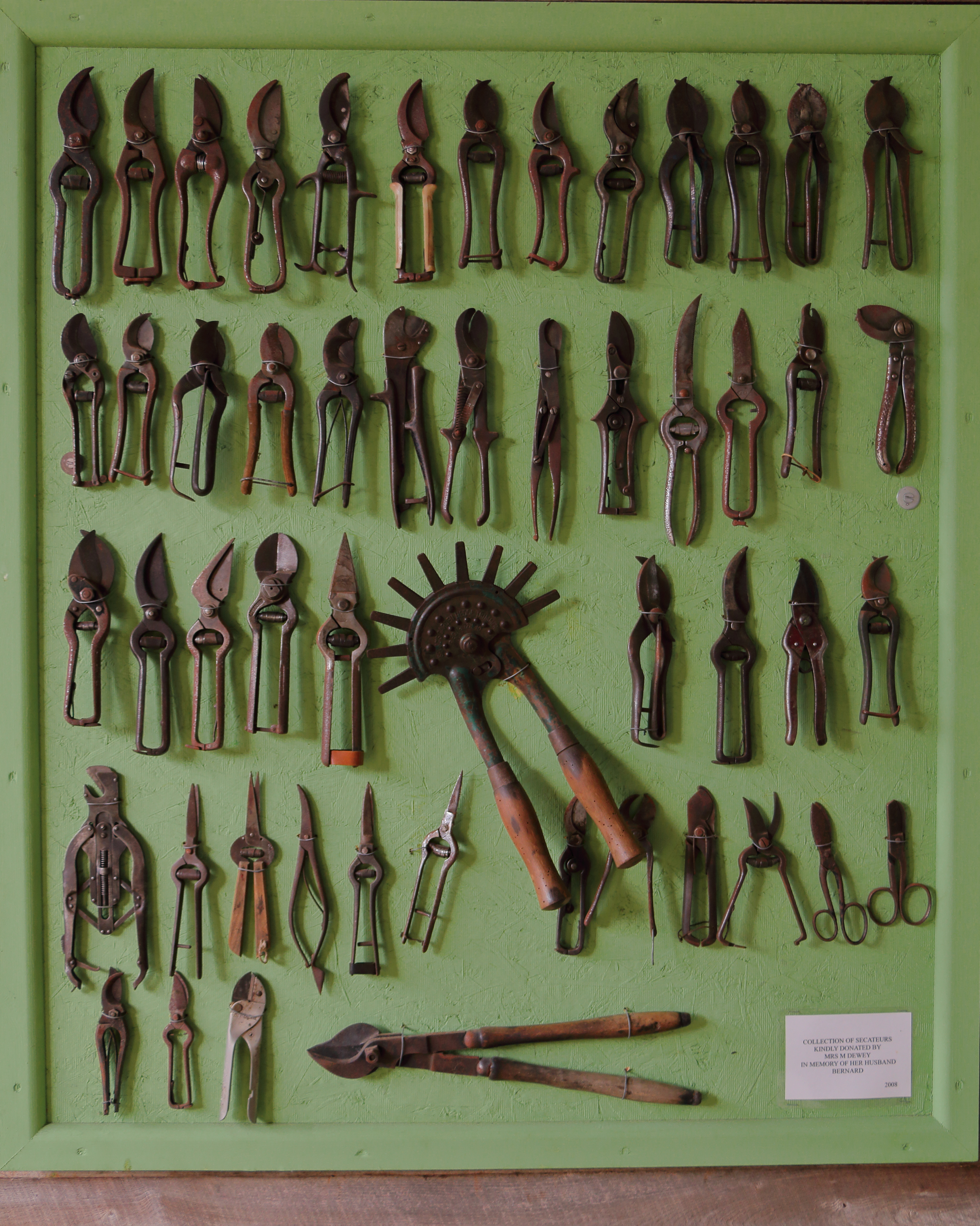 Collection of secateurs donated by Mrs M Dewey to Breamore House, Hampshire, England, in memory of her husband Bernard. Currently housed in their countryside museum.